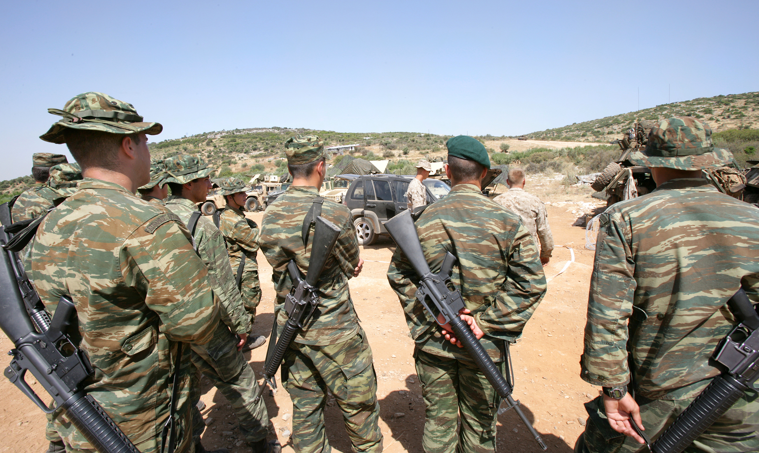 Greek Marines watch a demonstration of a vehicle search given by U.S. Marines at Melissatika training area outside Volos, Greece, June 11, 2009. The U.S. Marines are assigned to the 22nd Marine Expeditionary Unit, Battalion Landing Team, 3rd Battalion, 2nd Marine Regiment, which is in Greece for 12 days of training.